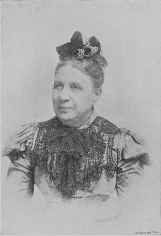 Portrait of Věnceslava Lužická (Anna Srbová, 1832-1920), a Czech women writer.